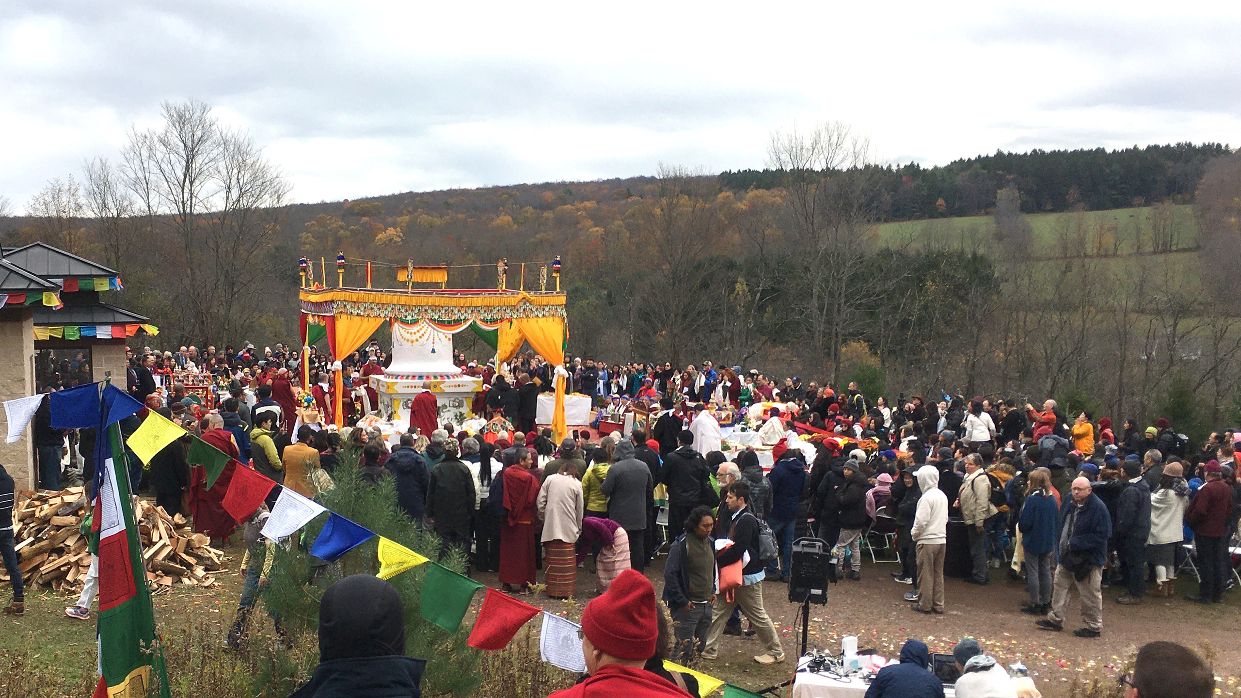 4 sets of Lamas, monks and nuns are performing simultaneous but differing sadhanas in the 4 cardinal directions around the cremation stupa.